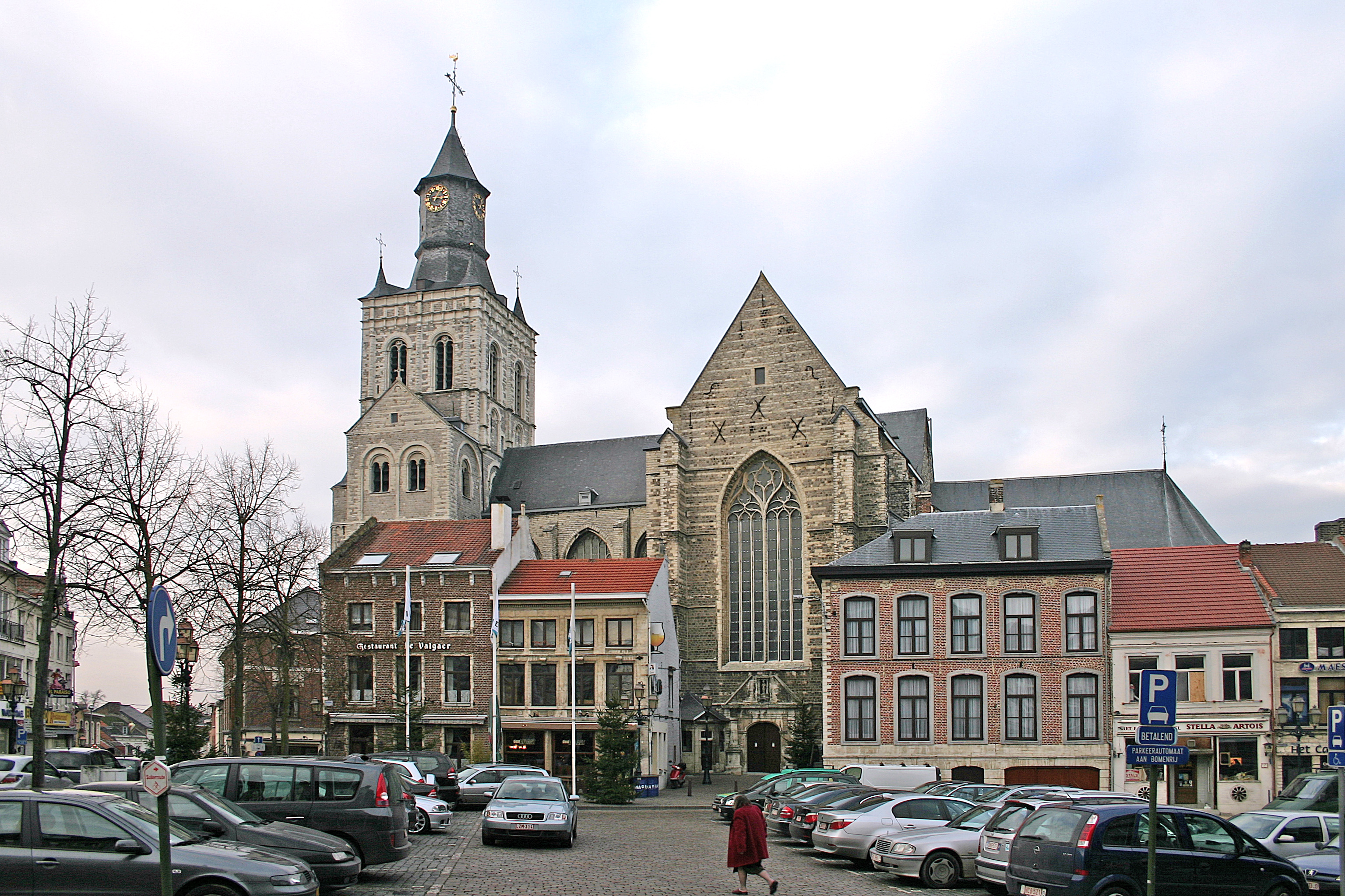 The church Saint Germain Church (view from Veemarkt) in Tienen (The Flanders, Belgium)